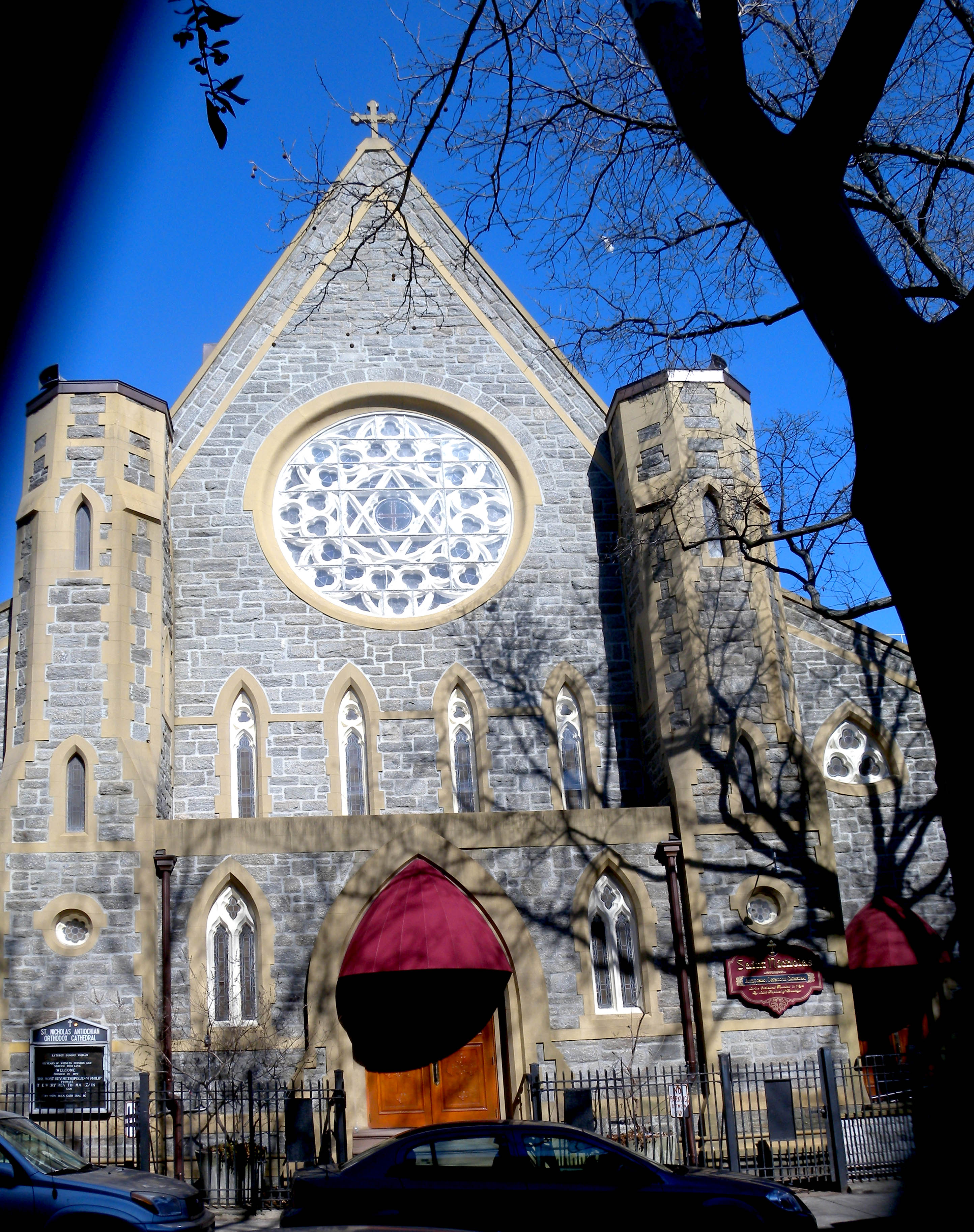 Looking north across State Street at St Nicholas Antiochian Orthodox Cathedral, 355 State Street, on a sunny midday.